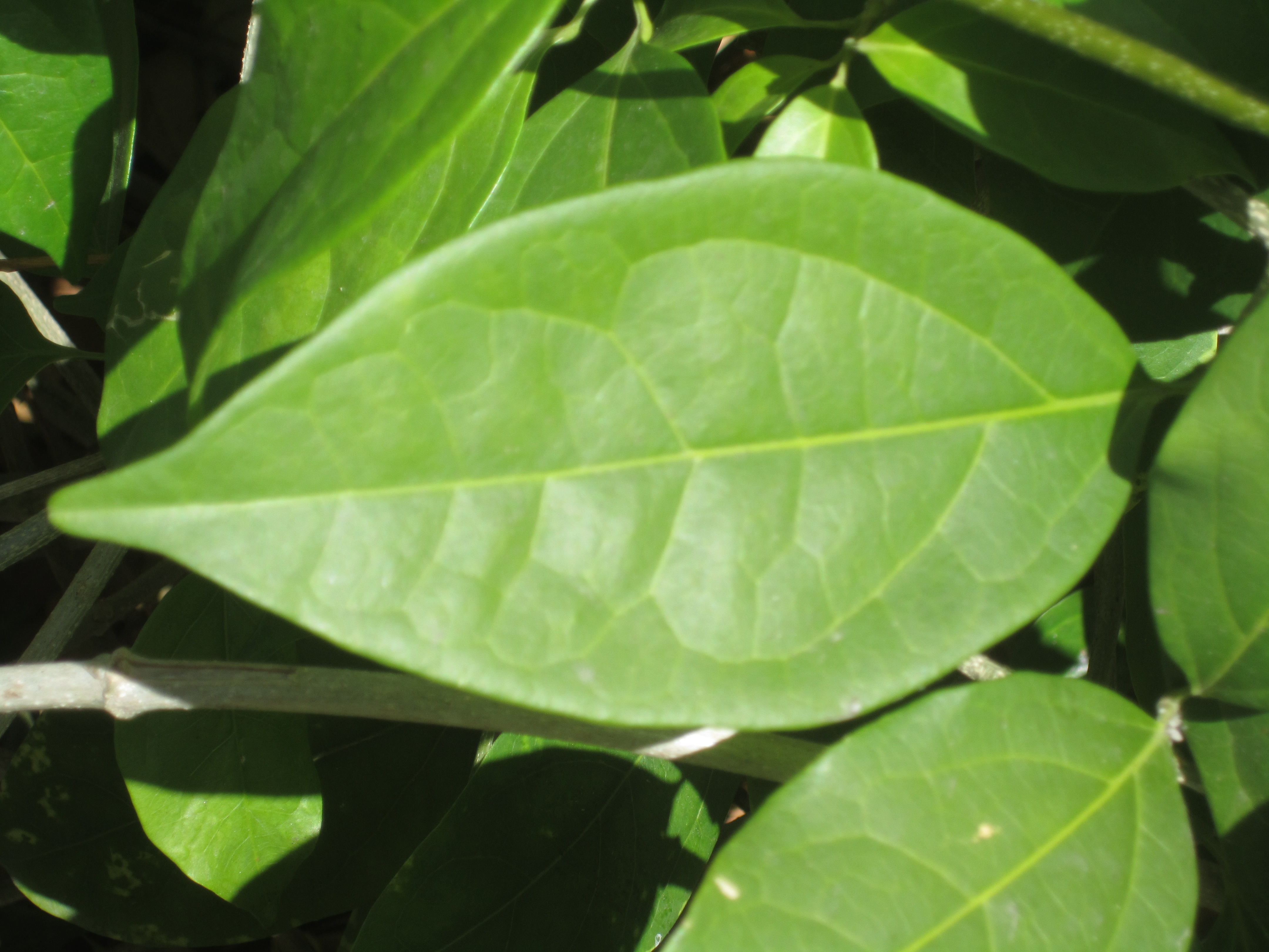 The making of this file was supported by Wikimedia Australia. To see other files made with WM-AU support, please see the category Supported by Wikimedia Australia. Mansoa alliacea in the Mount Coot-tha Botanical Gardens. Photo taken in October (mid spring) of 2012.